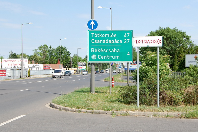 City limit table in Bekescsaba, Hungary. Traditional hungarian letters (rovas)